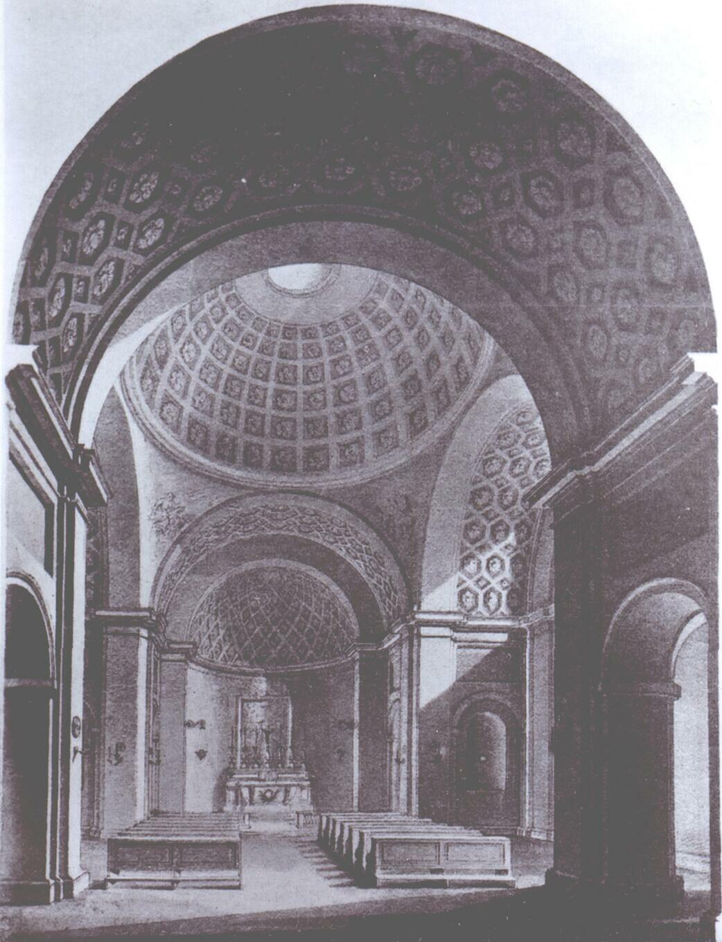 Tsarskoye Selo (Russia), Kostel.